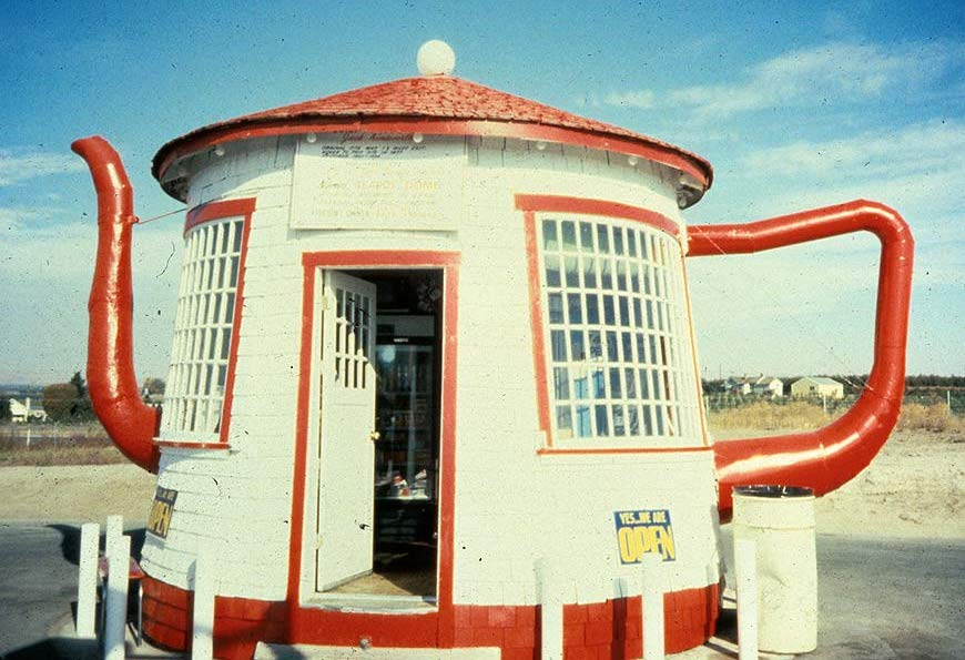 Building shaped like tea-pot. Teapot Dome Service Station in Zillah, Washington